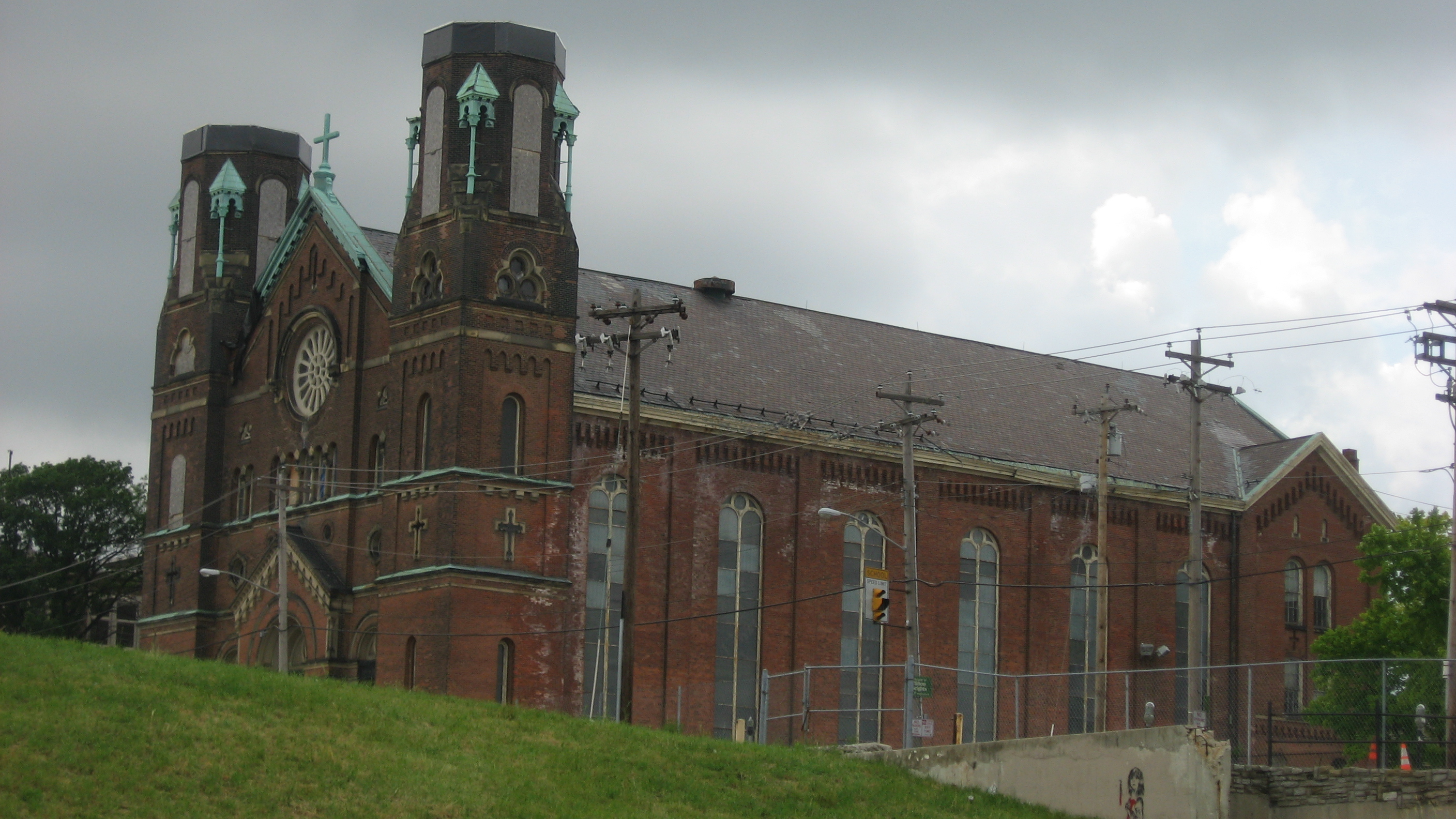 Front and eastern side of St. George's Catholic Church, located at 42 Calhoun Street in Cincinnati, Ohio, United States. Built in 1873, it is listed on the National Register of Historic Places.